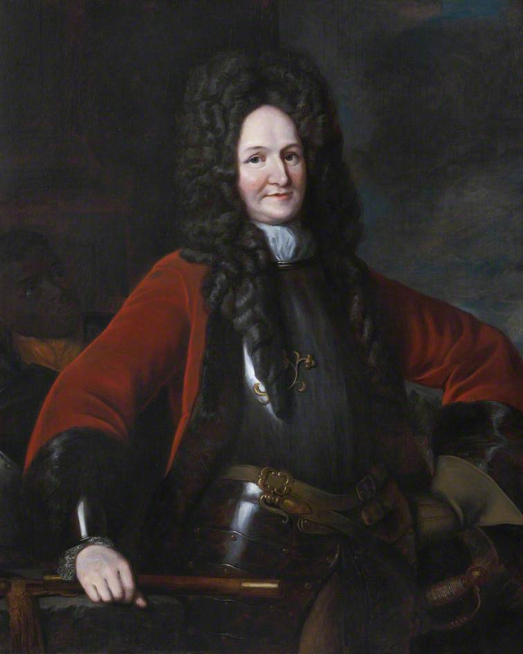 1690 painting of General Hugh MacKay (c.1640–1692) by Nicolaes van Ravesteyn (II); a Scottish Williamite general.